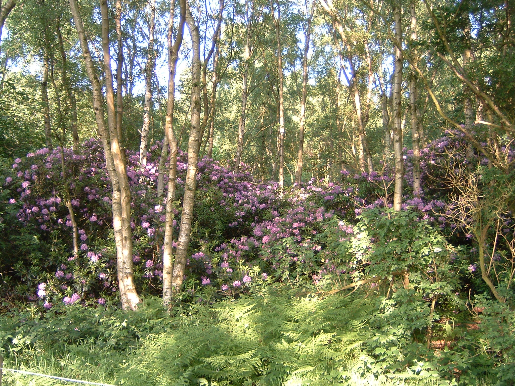 North East Corner of Hopwas Hayes Wood.